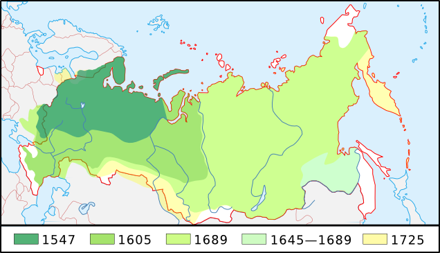 Growth of Russia between 1547 and 1725: 1547 – coronation of Ivan IV (1530-1584) as the first Russian tsar 1605 – death of tsar Boris Godunov, beginning of the Time of Troubles 1689 – Treaty of Nerchinsk, left bank of Amur ceded to China 1689 – beginning of the reign of Peter I the Great (born in 1672) 1725 – death of Peter I the Great